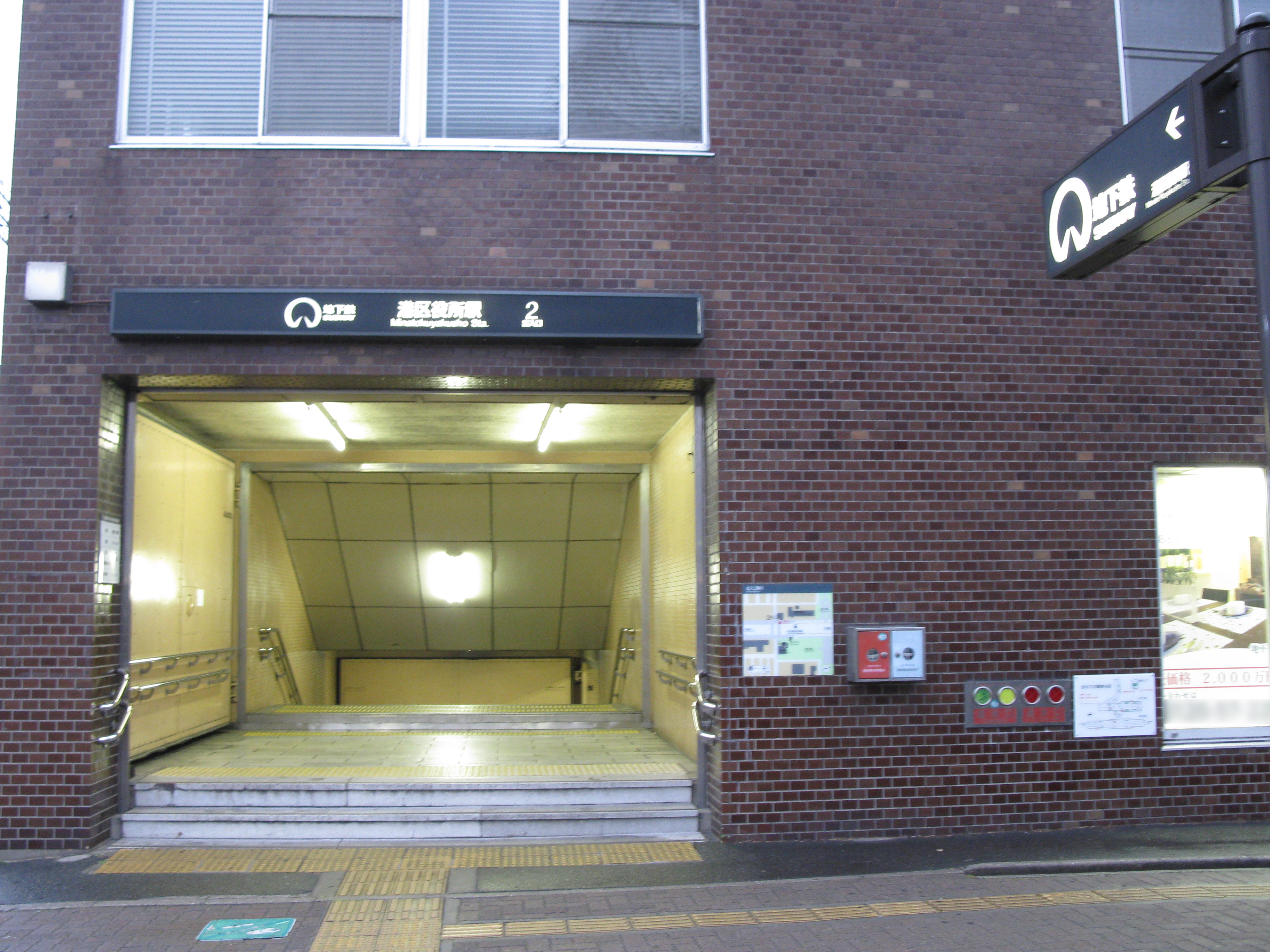 Minato Kuyakusho Station no.2 entrance (Nagoya Municipal Subway Meikō Line)